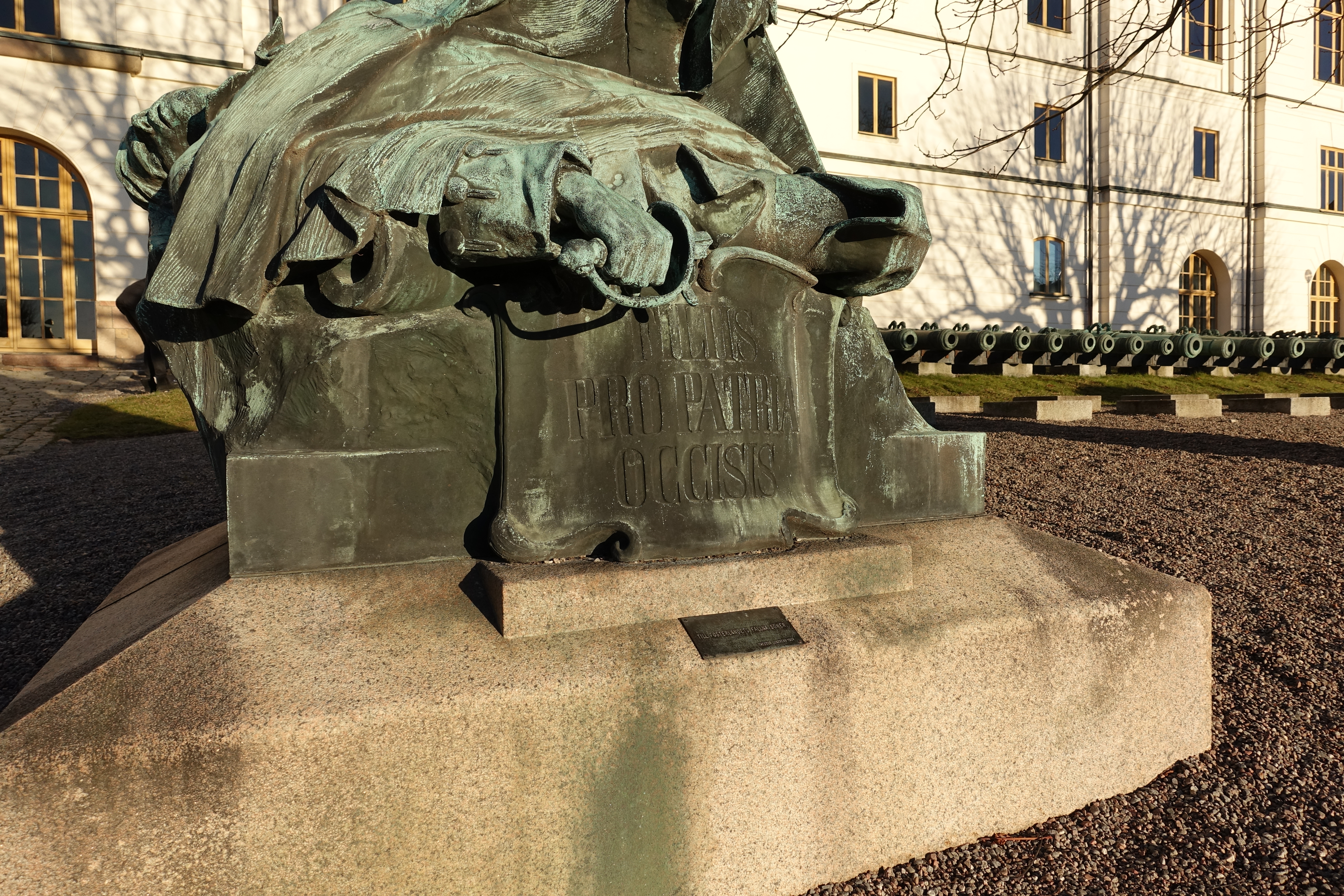 The Poltava Monument in Stockholm, Sweden